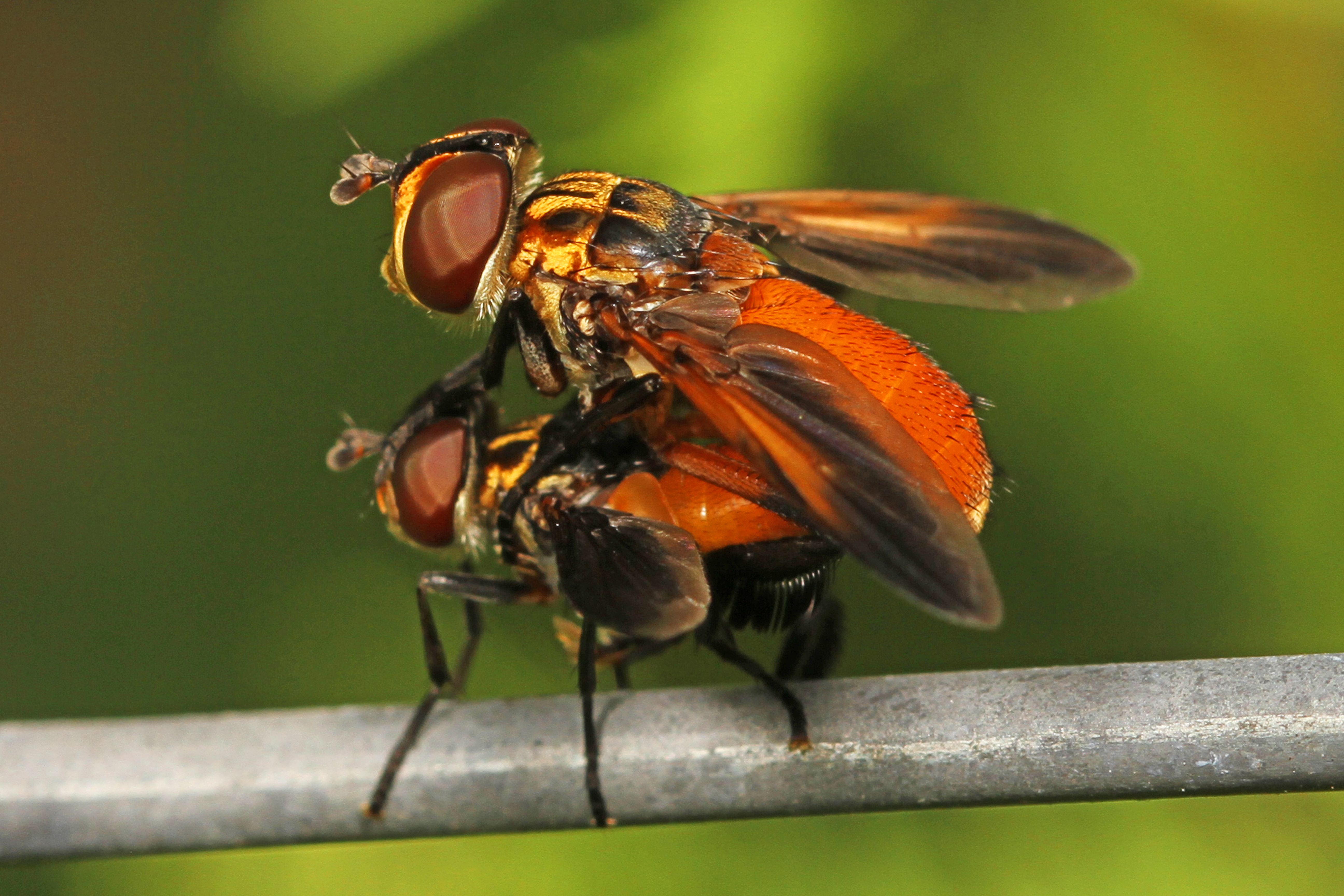 Tachinid Fly - Trichopoda pennipes, Elkhorn Community Gardens, Columbia, Maryland.